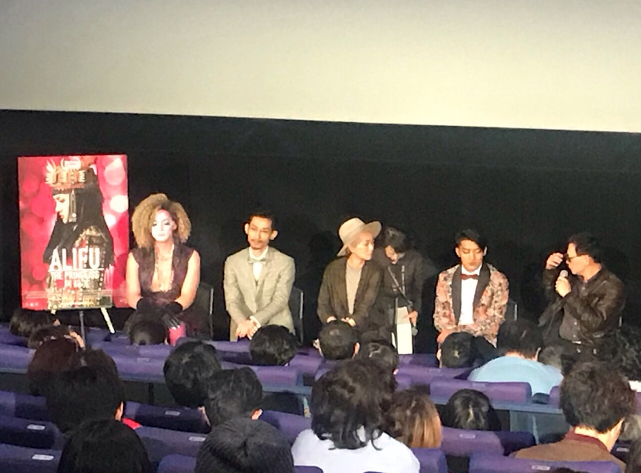 The premiere of Alifu, the Prince/ss at Tokyo International Film Festival